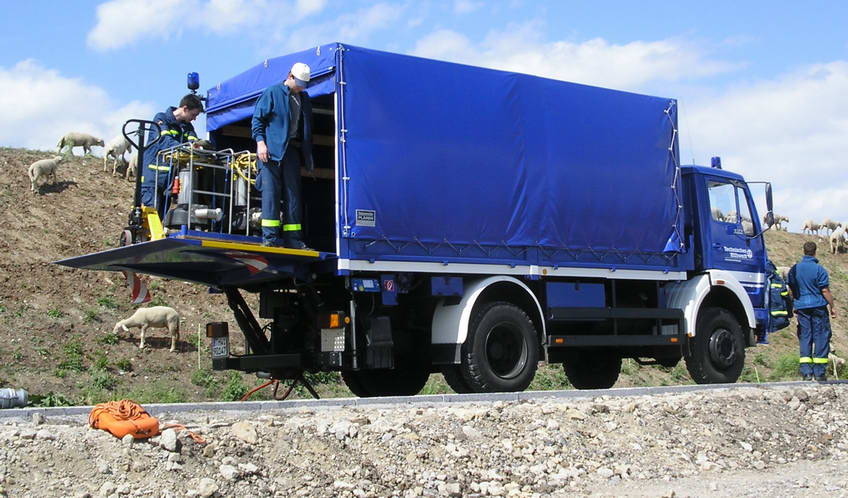 Truck with Load on-board wall of THW Böblingen